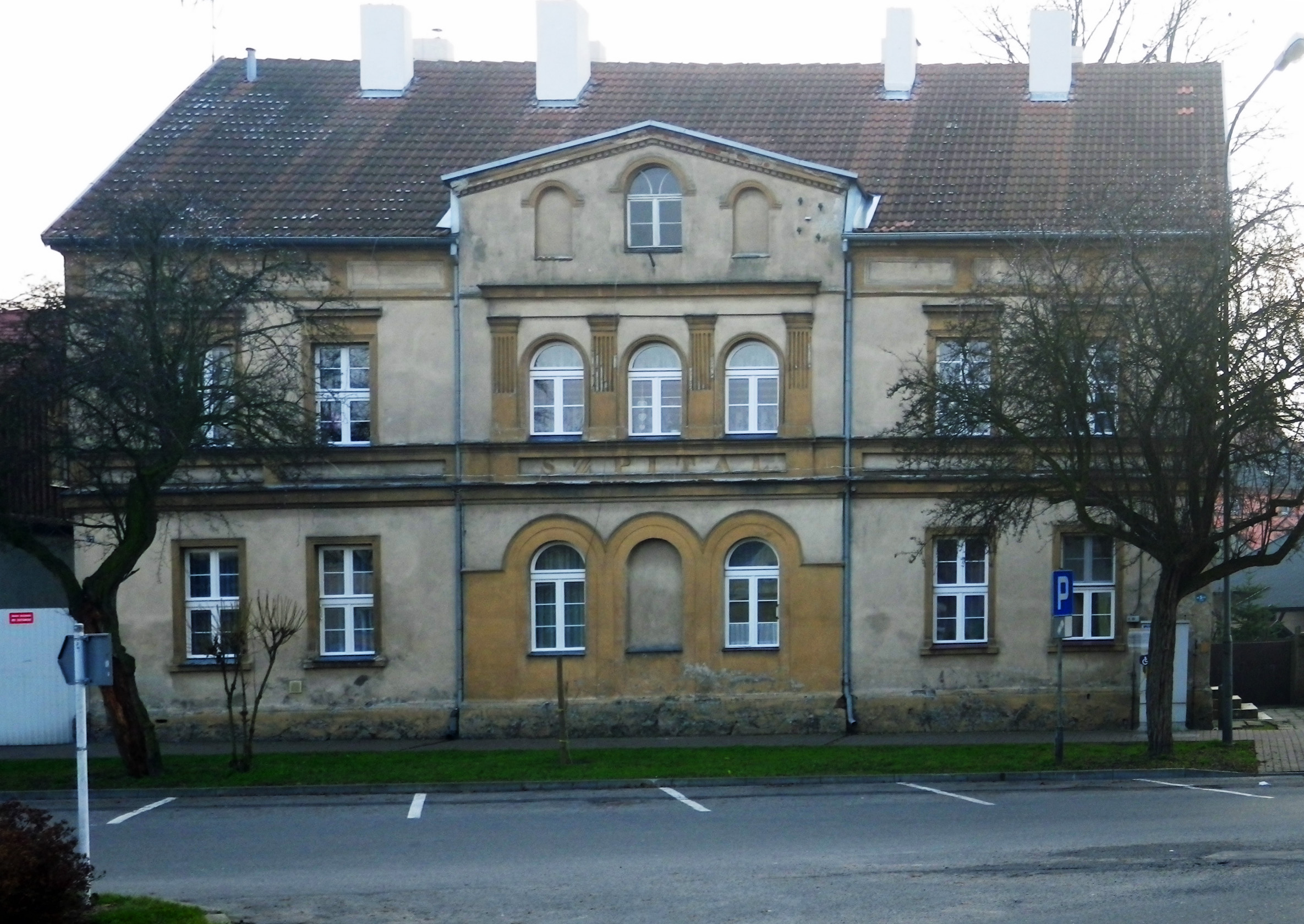 Former Holy Spirit Hospital in Buk (Greater Poland Voivodeship), founded about 1600